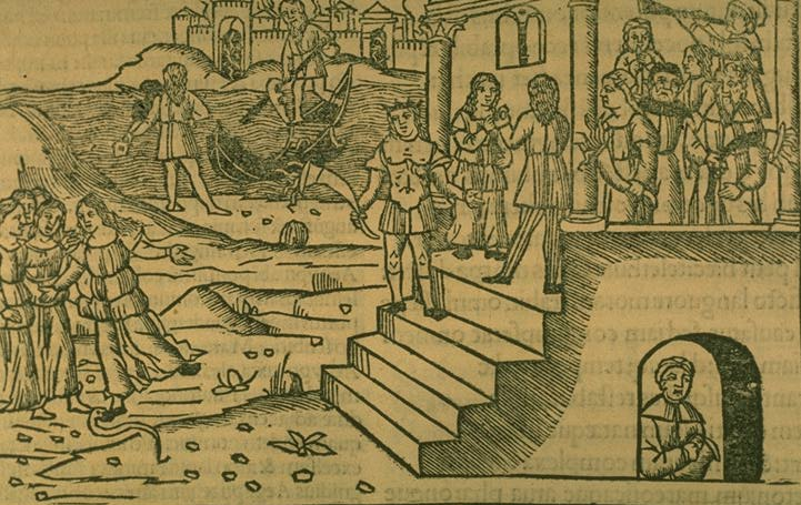 Eurydice Bitten by Serpent. Engraving by Regius for Ovid's Metamorphoses Book X, 1-10.